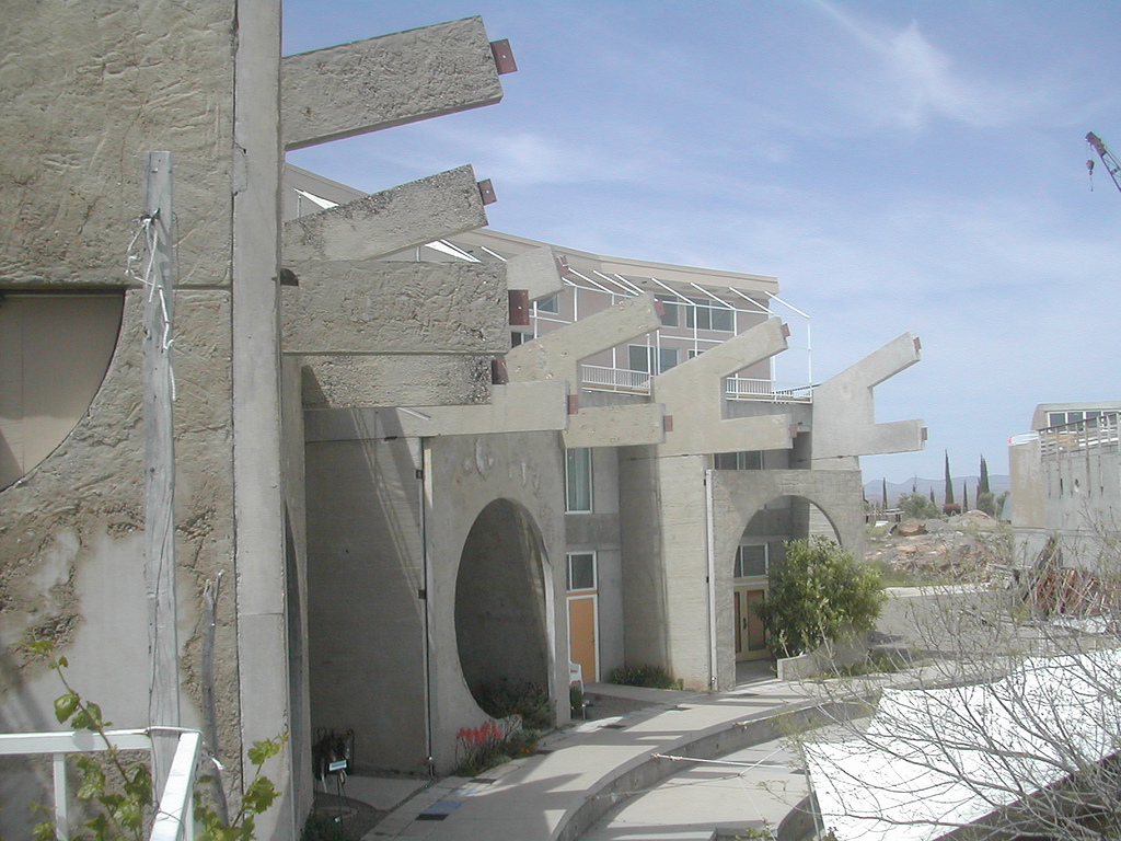 This is one of the buildings in Arcosanti where alot of residents live. The courtyard that is concentric to the arc this building makes is a theatre.